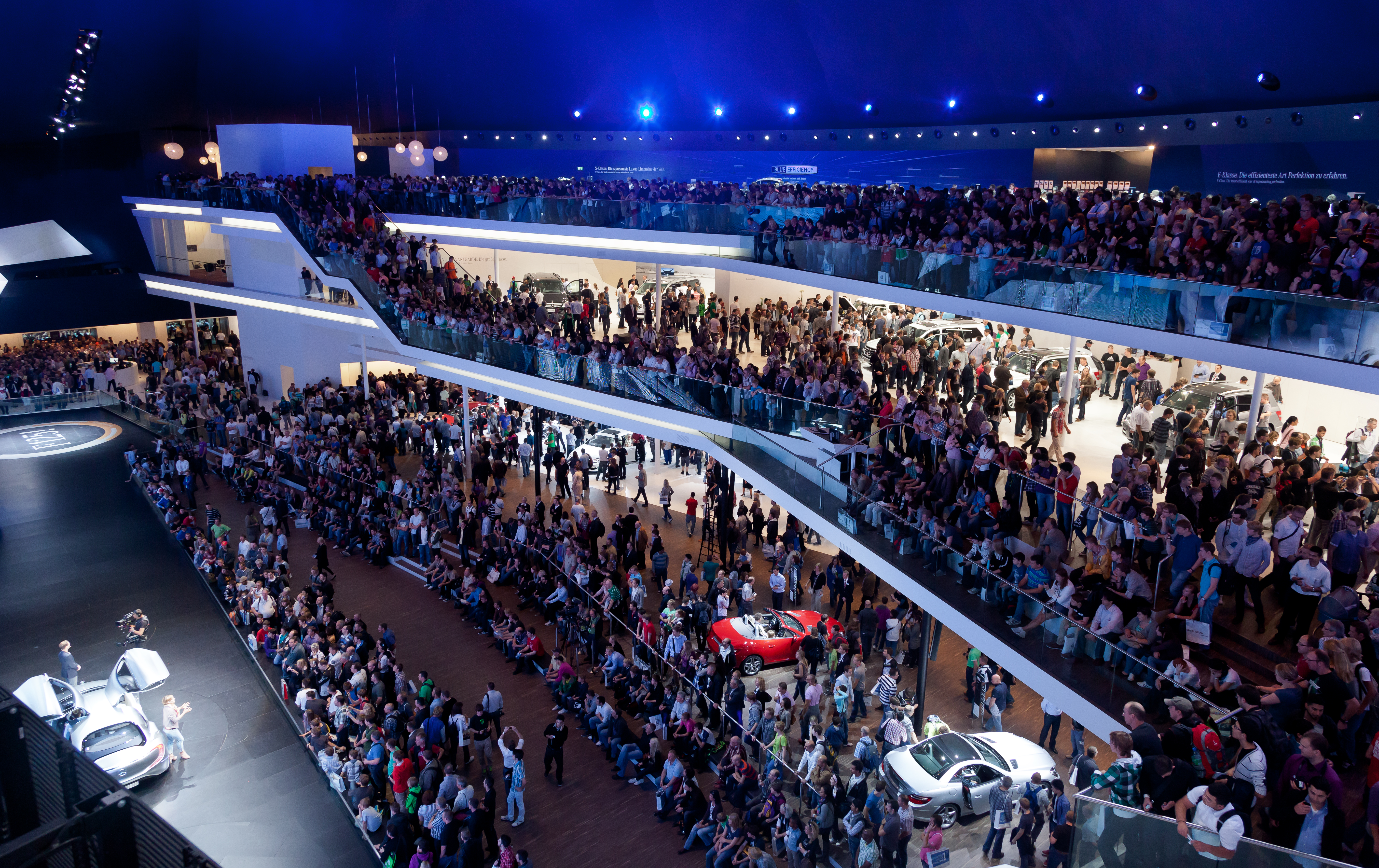 Mercedes-Benz at Frankfurt Motor Show 2011 in Frankfurt, Germany